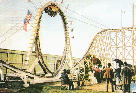 Flip Flap Railway, an early looping roller coaster at Coney Island Source: Encyclopædia Britannica Category:Roller coaster artwork